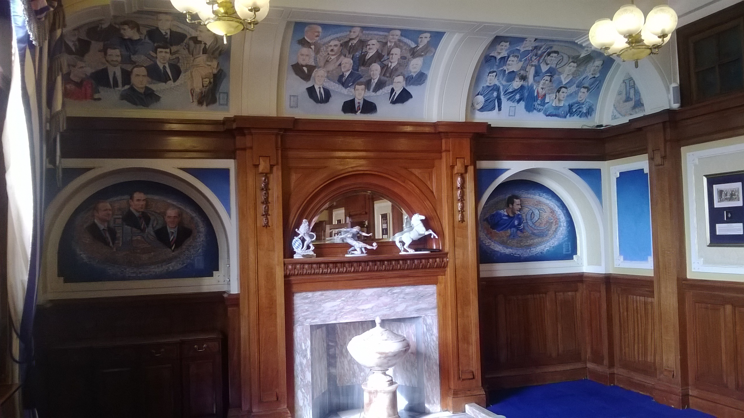 Ibrox Stadium - Blue room